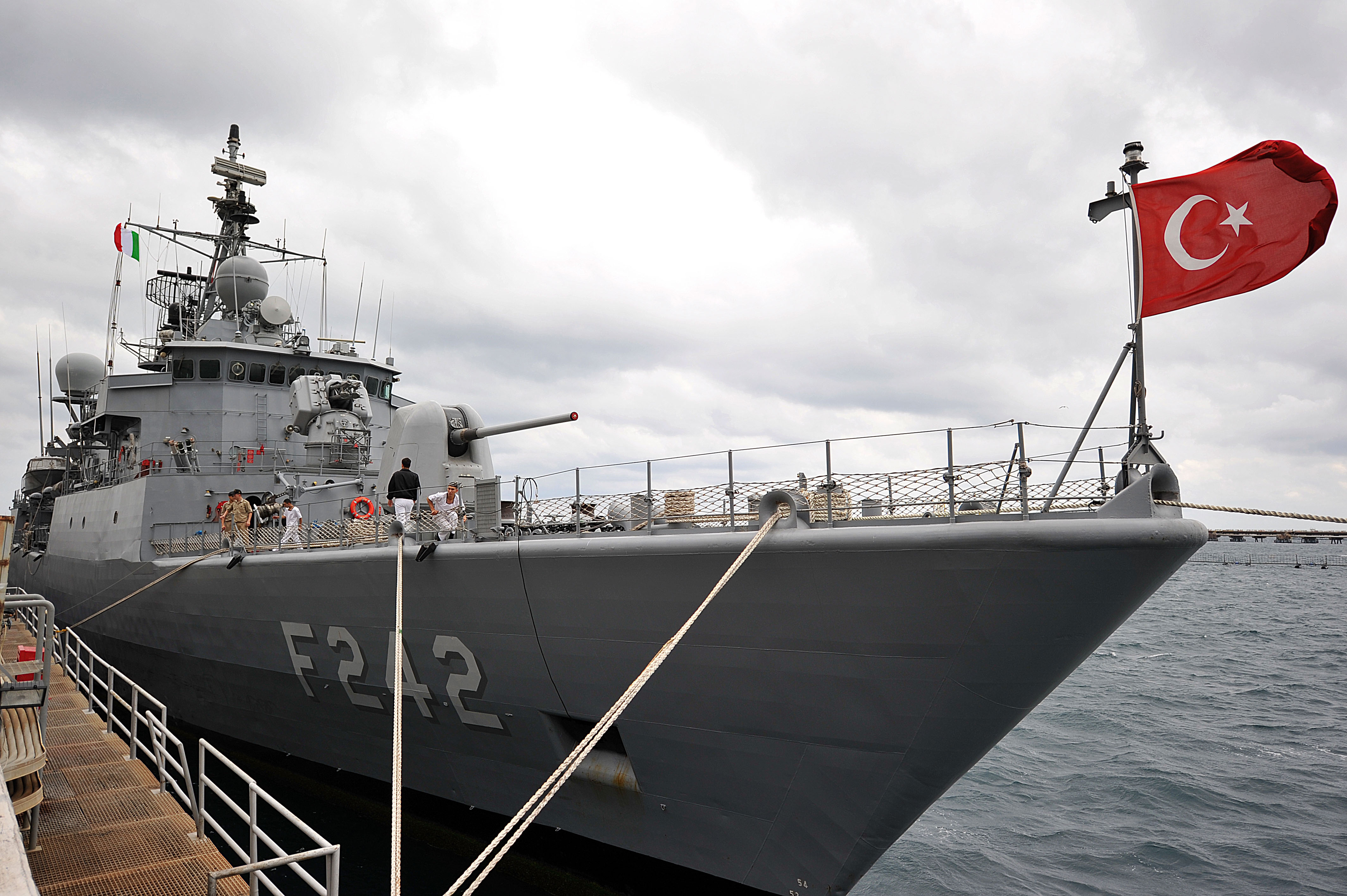 Turkish sailors set mooring lines aboard the Turkish Navy frigate TCG Fatih (F-242) shortly after pulling into port at Augusta Bay, June 2, 2014, during Phoenix Express 2014. Phoenix Express is an at-sea exercise designed to strengthen maritime partnerships and enhance stability through increased interoperability and cooperation among partners from Africa, Europe and North America. (DoD photo by Mass Communication Specialist 3rd Class Cameron Bramham, U.S. Navy/Released)